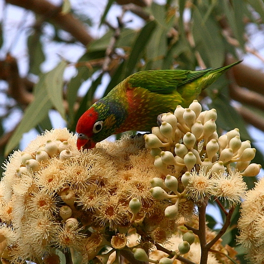 A Varied Lorikeet in Queensland, Australia.